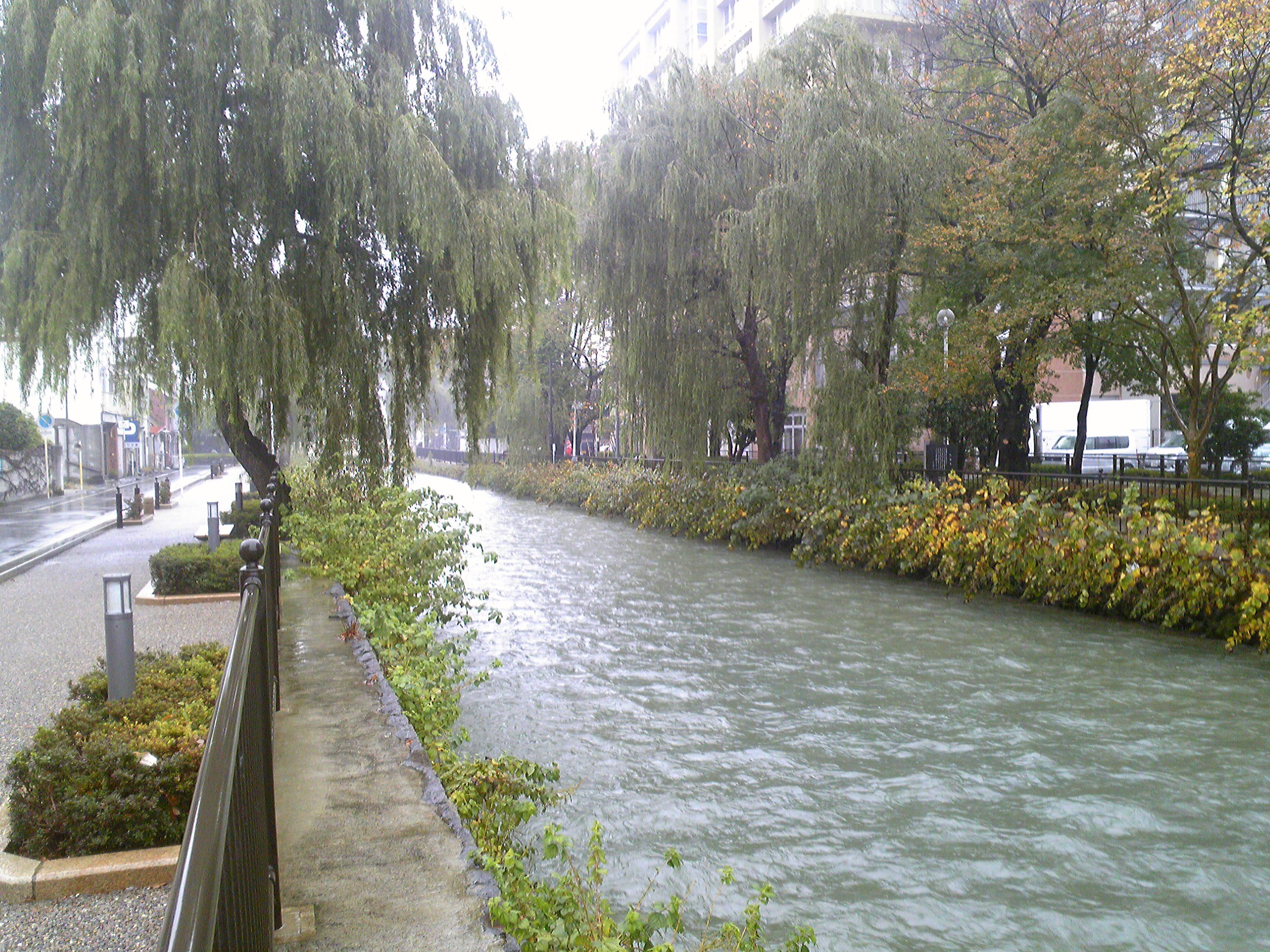 Hirose River in Gunma, Japan.